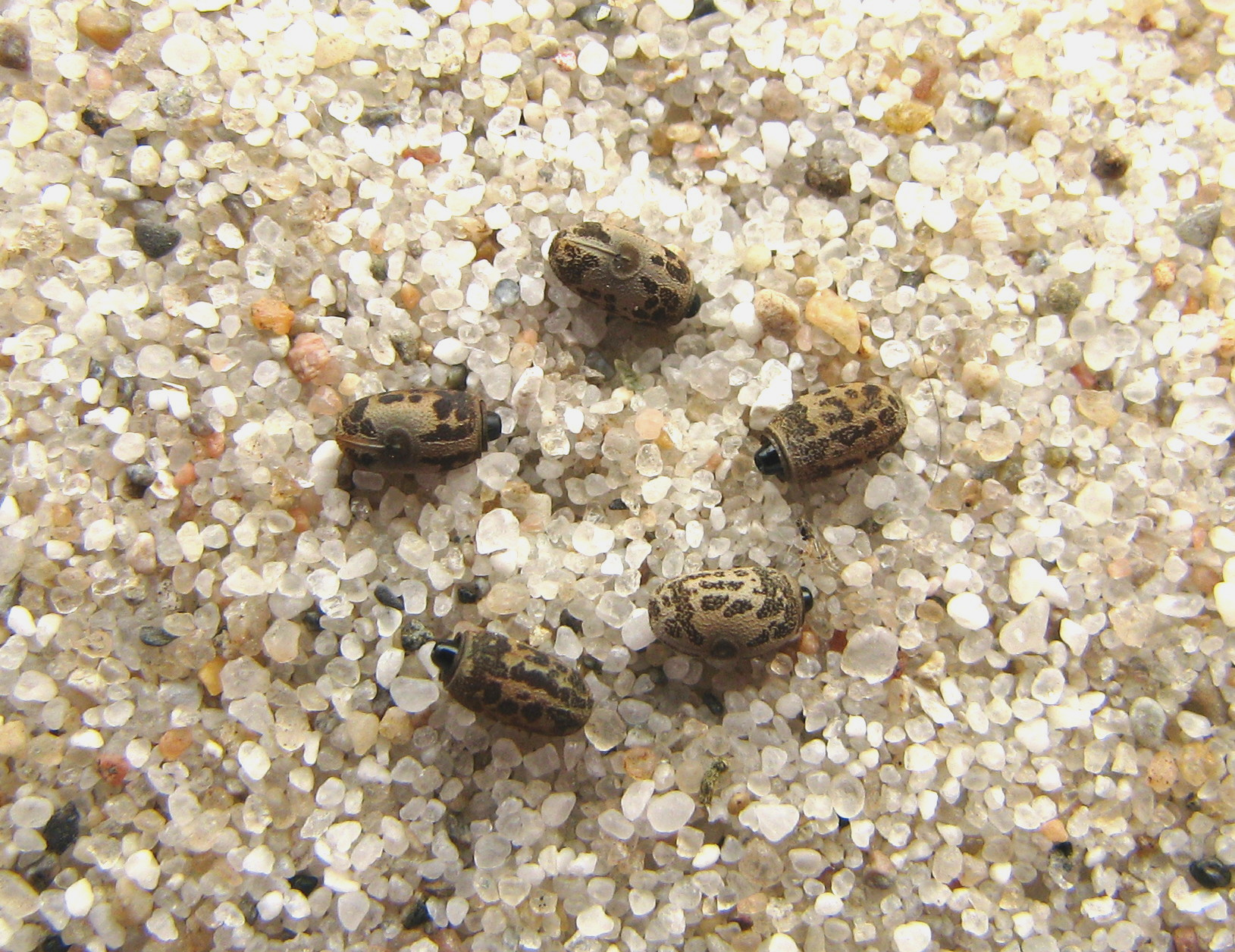 eggs of Annam Stick Insect (Medauroidea extradentata)